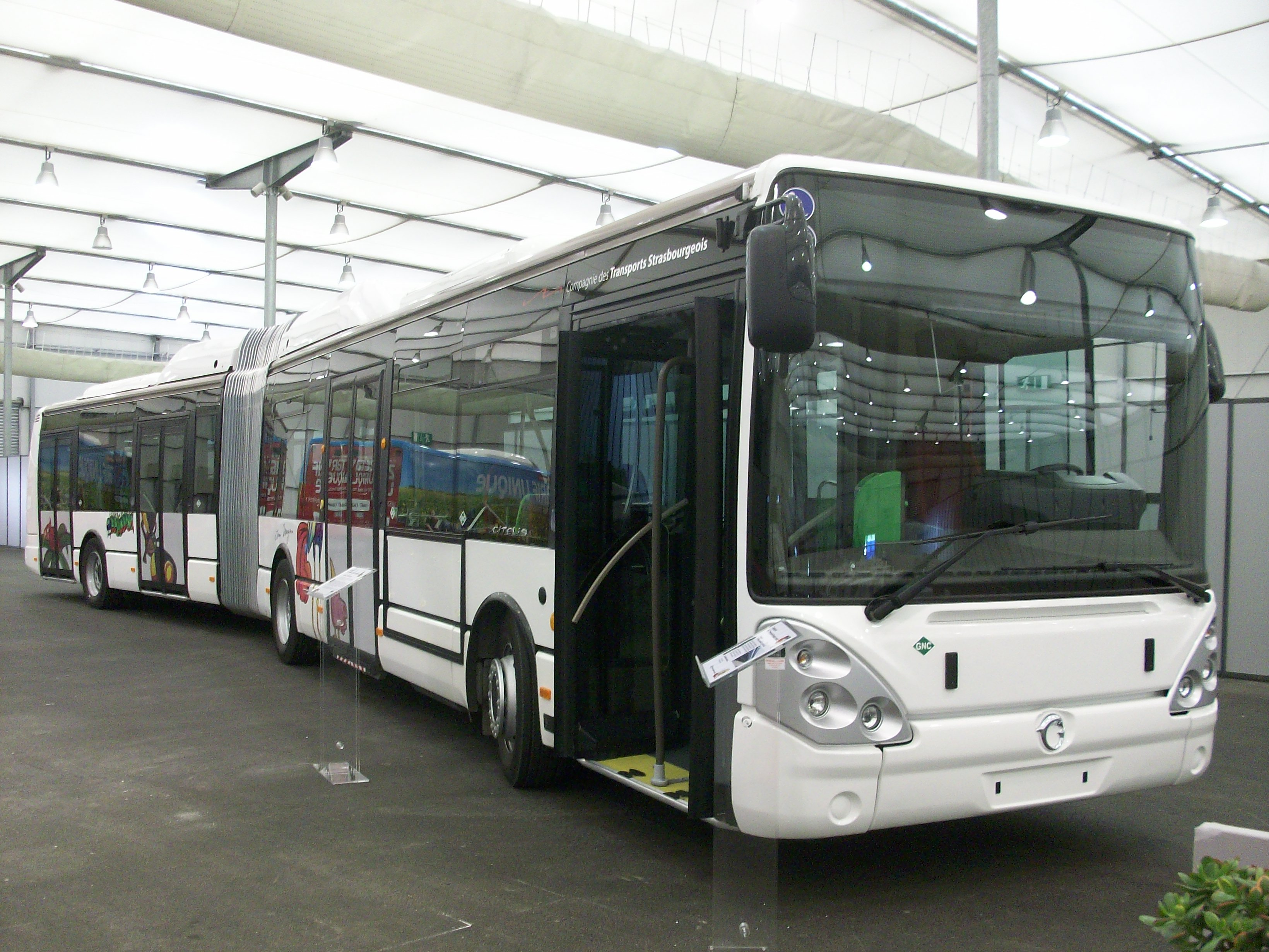 Irisbus Citelis 18 CNG articulated bus in Strasbourg, France. CTS from Strasbourg operator. RNTP 2011.